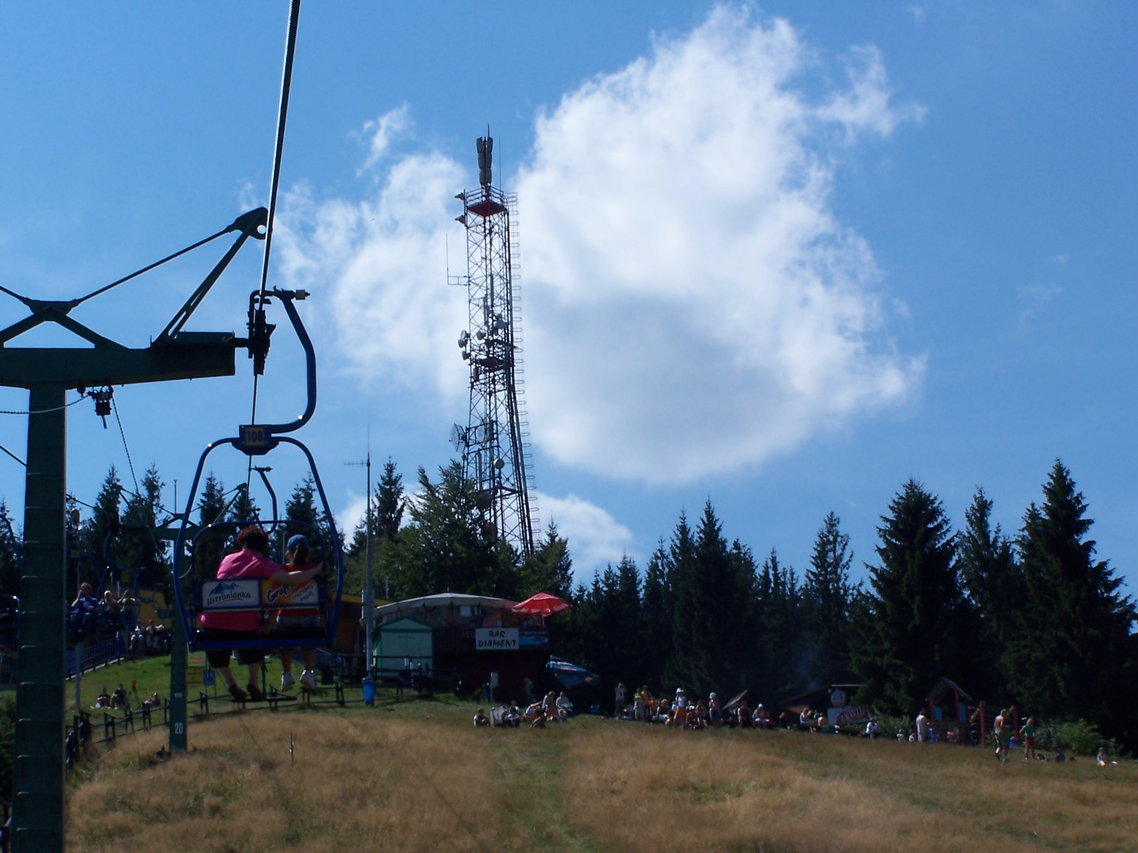 Czantoria Cableway